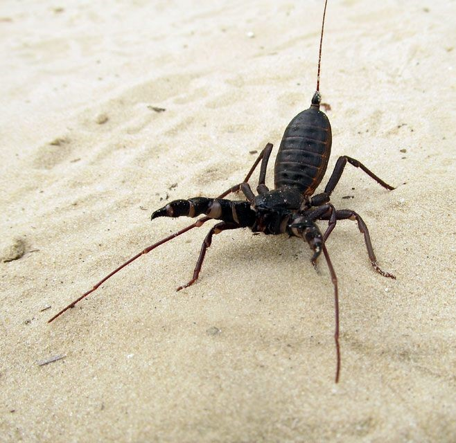 whip scorpion-Florida